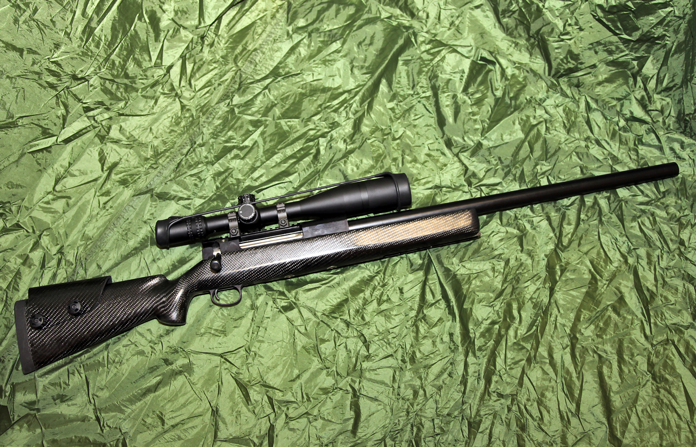 Lobaev rifle OVL-3 with NightForce 5.5-22x50 NXS scope